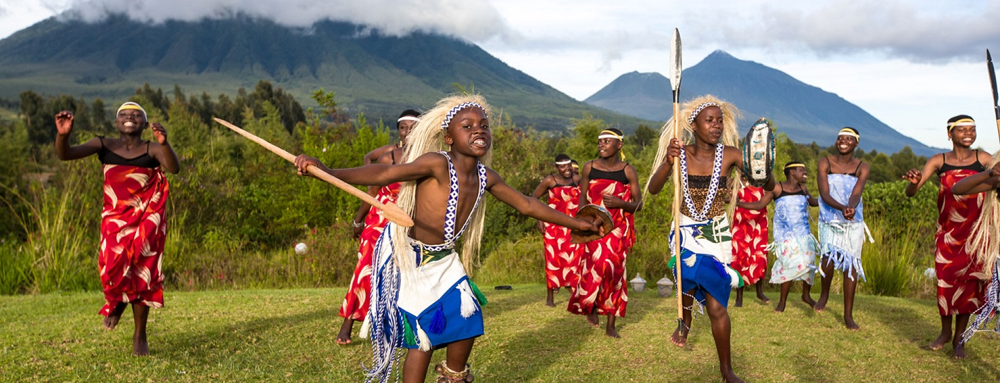 This is an image with the theme "Play" from: Rwanda